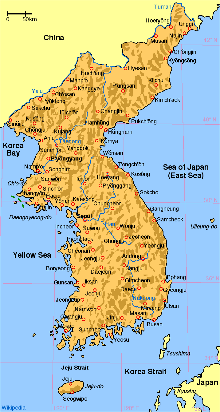 Map of Korea, naming of localities due to Wikipedia:Naming conventions (Korean)